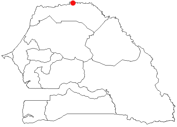 Podor, Senegal Location Map; created with the GIMP.